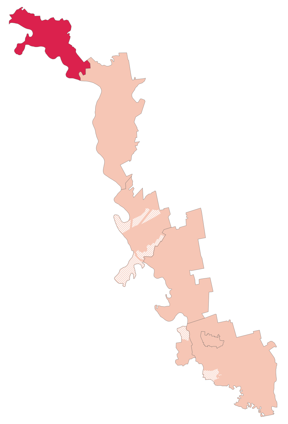 Raions of Transnistria: Camenca